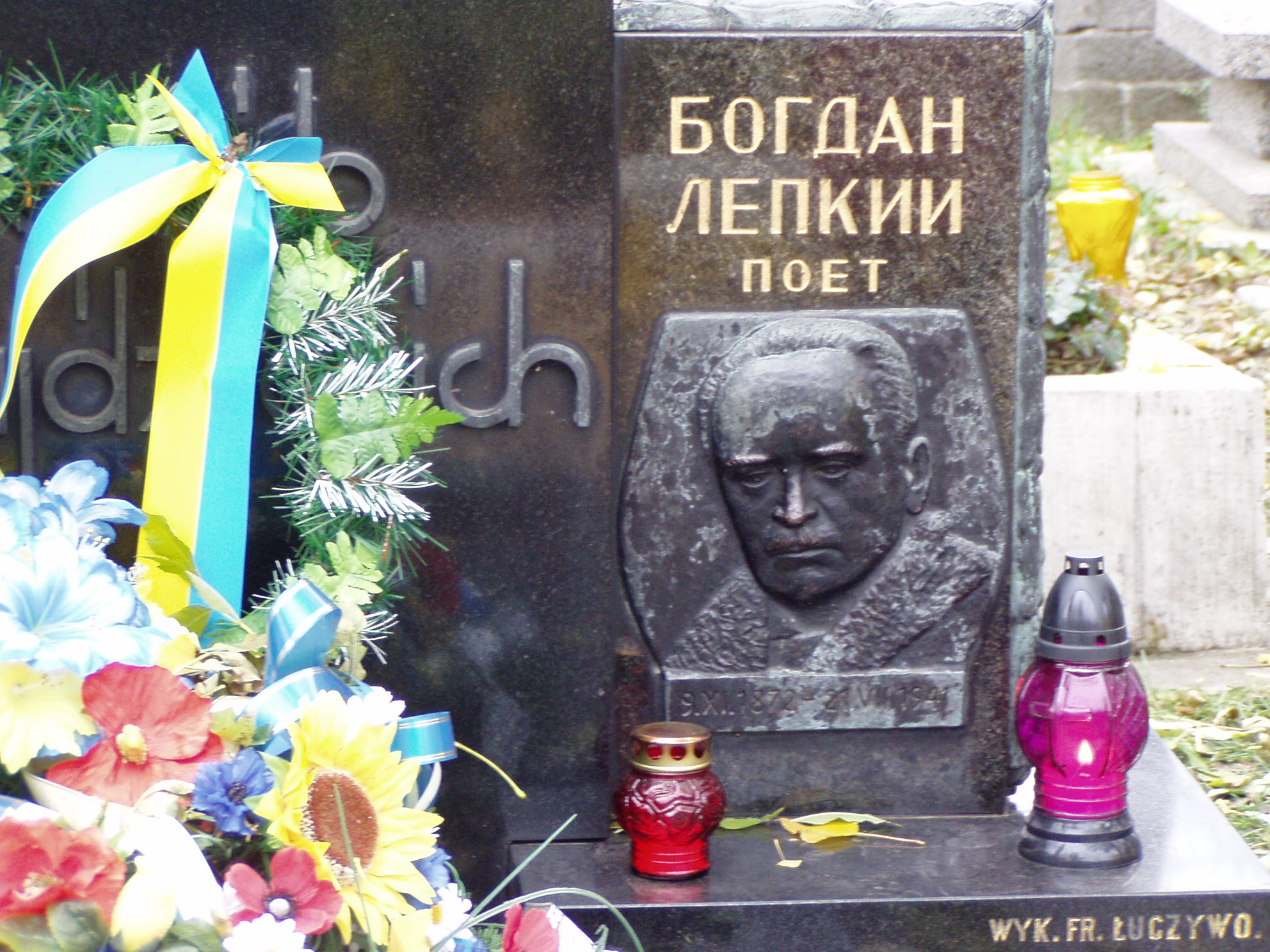 Bogdan Lepkii Grave in Krakiv